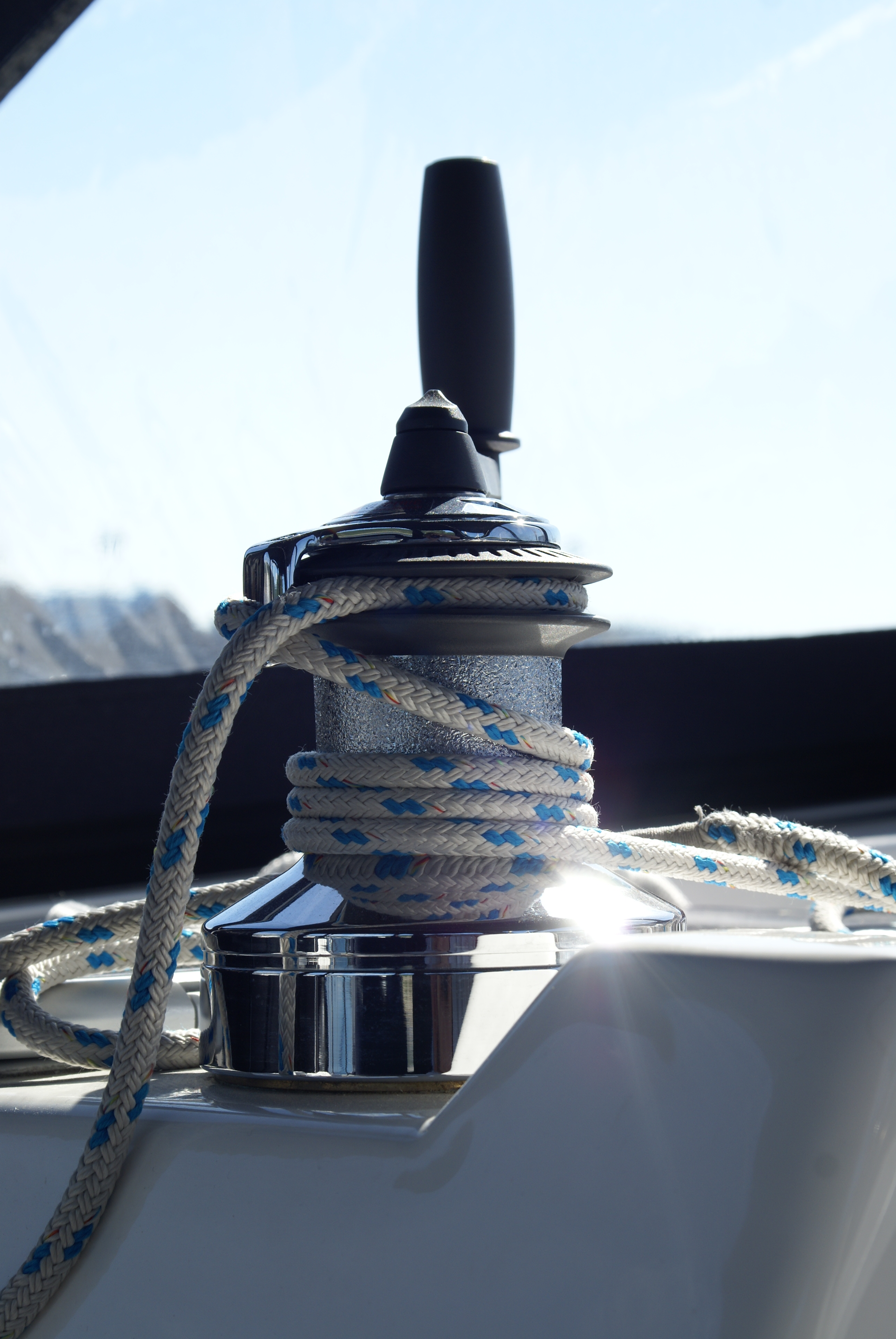 Block